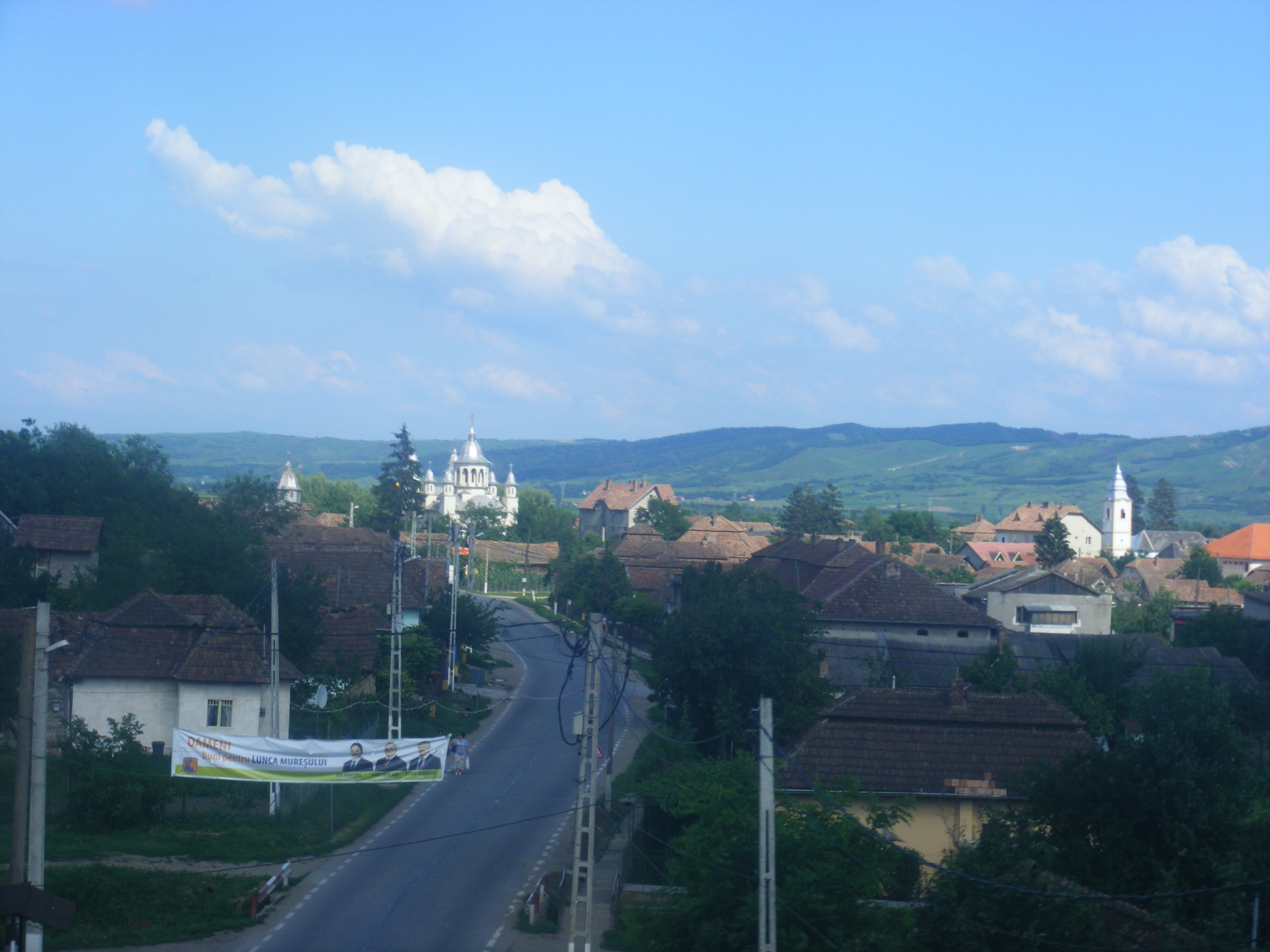 Wiev of Lunca Mureşului (Székelykocsárd) in Romania, Alba County